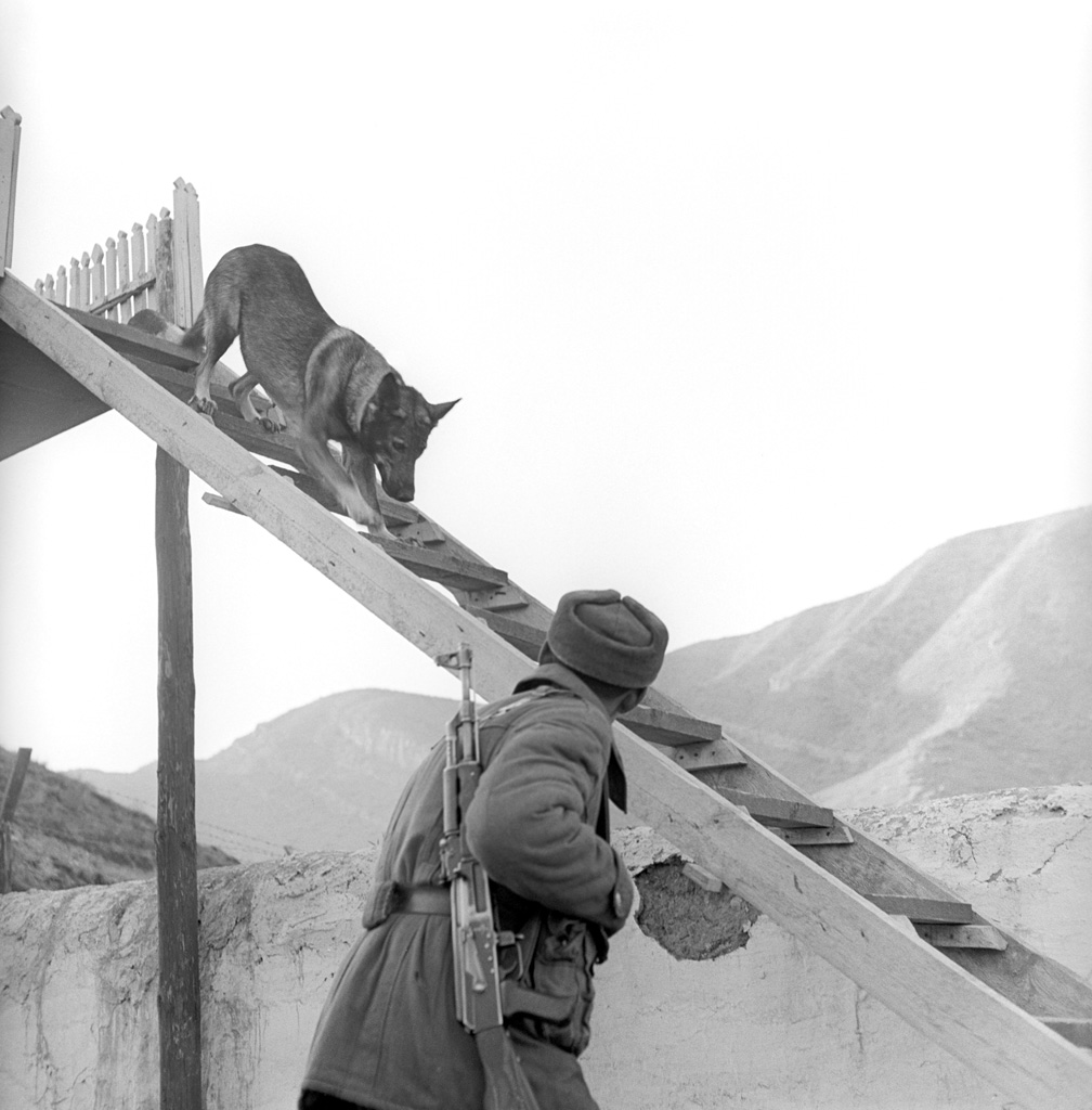 “Dog training at N frontier post”. Dog training at N frontier post.